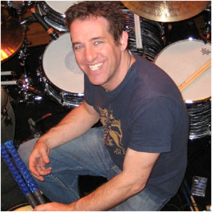 Photograph of Jim Riley during a Rascal Flatts TV taping